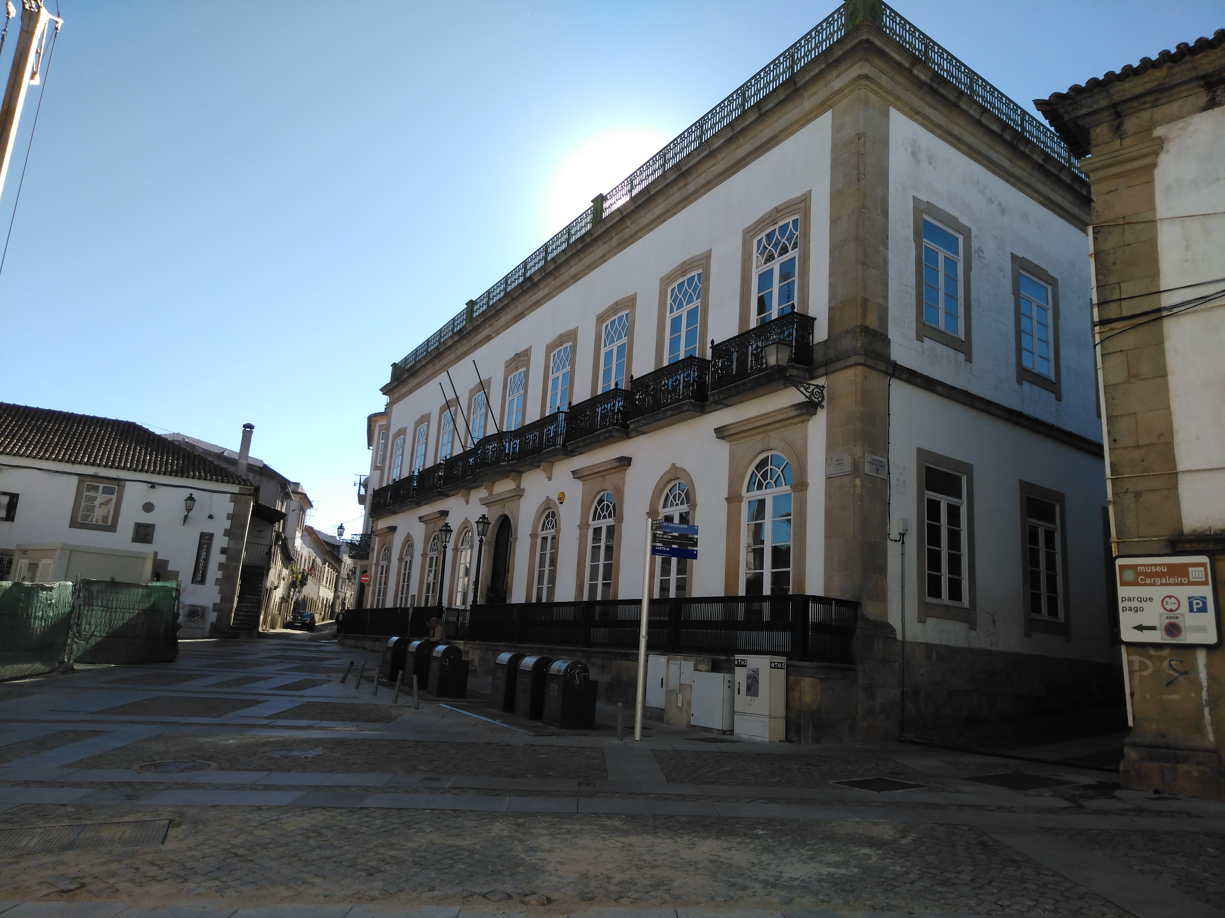 Arquivo Distrital de Castelo Branco